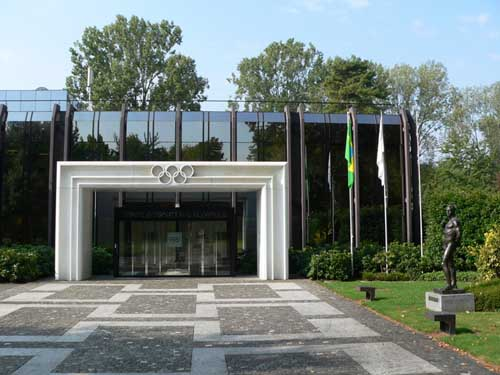 Office Building of the IOC in Lausanne, Switzerland, photography, no restrictions on use Copyright: free of charges Credit: private